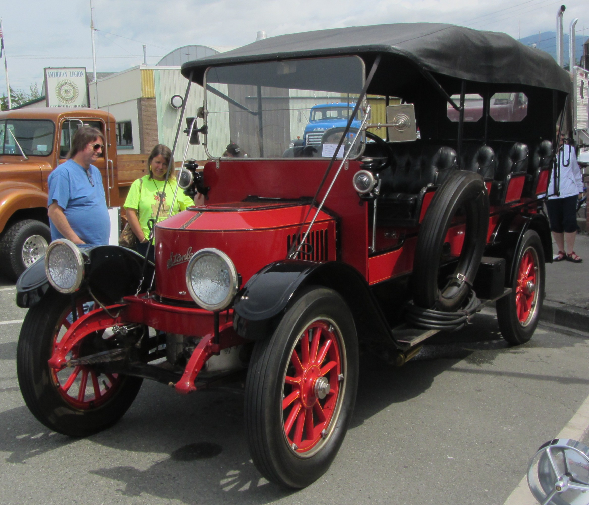 Sedro-Woolley, Washington car show